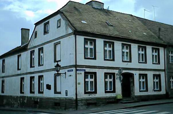 Kurt Schumacher birth house in Chełmno